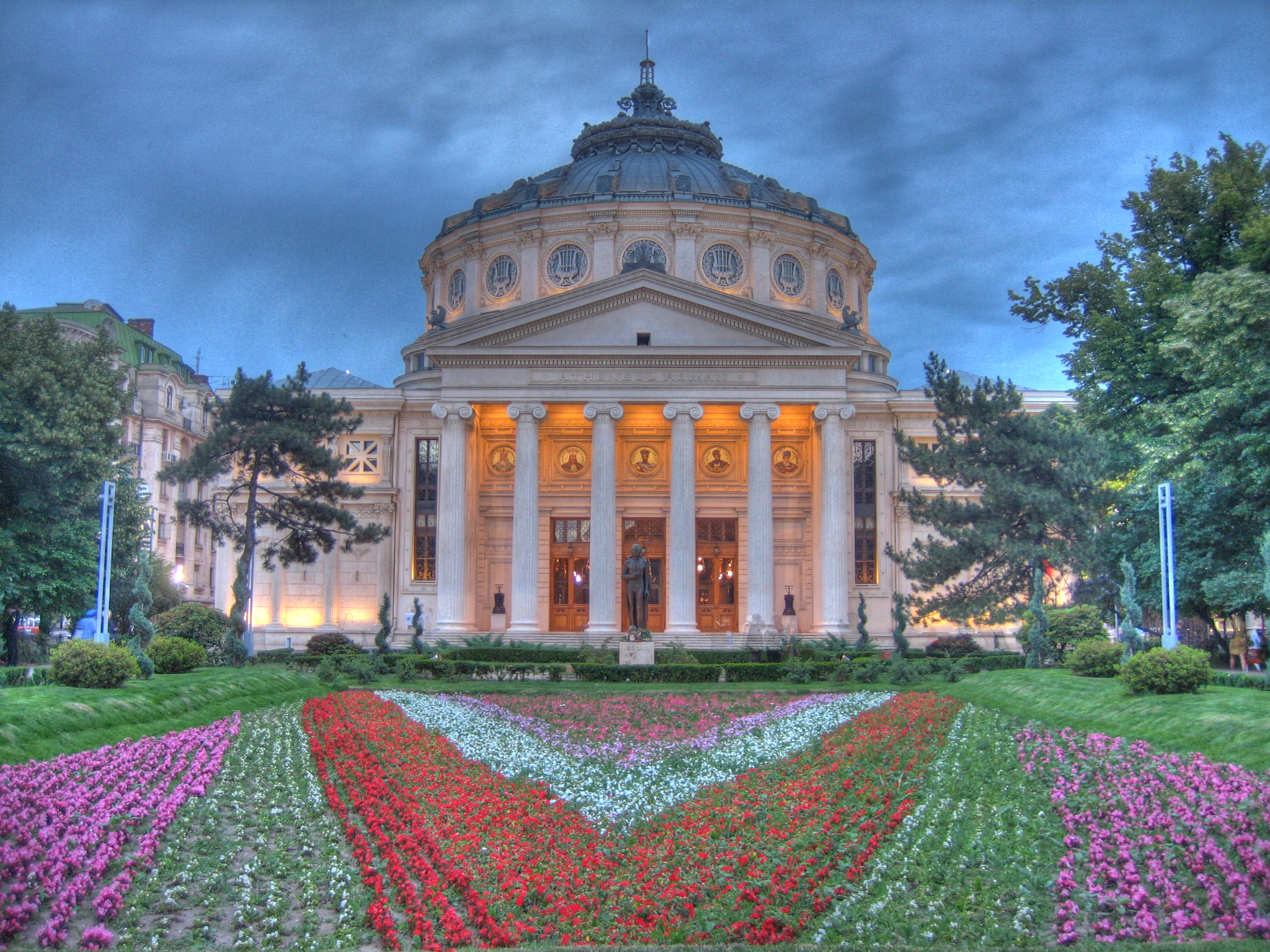 Romanian Athenaeum